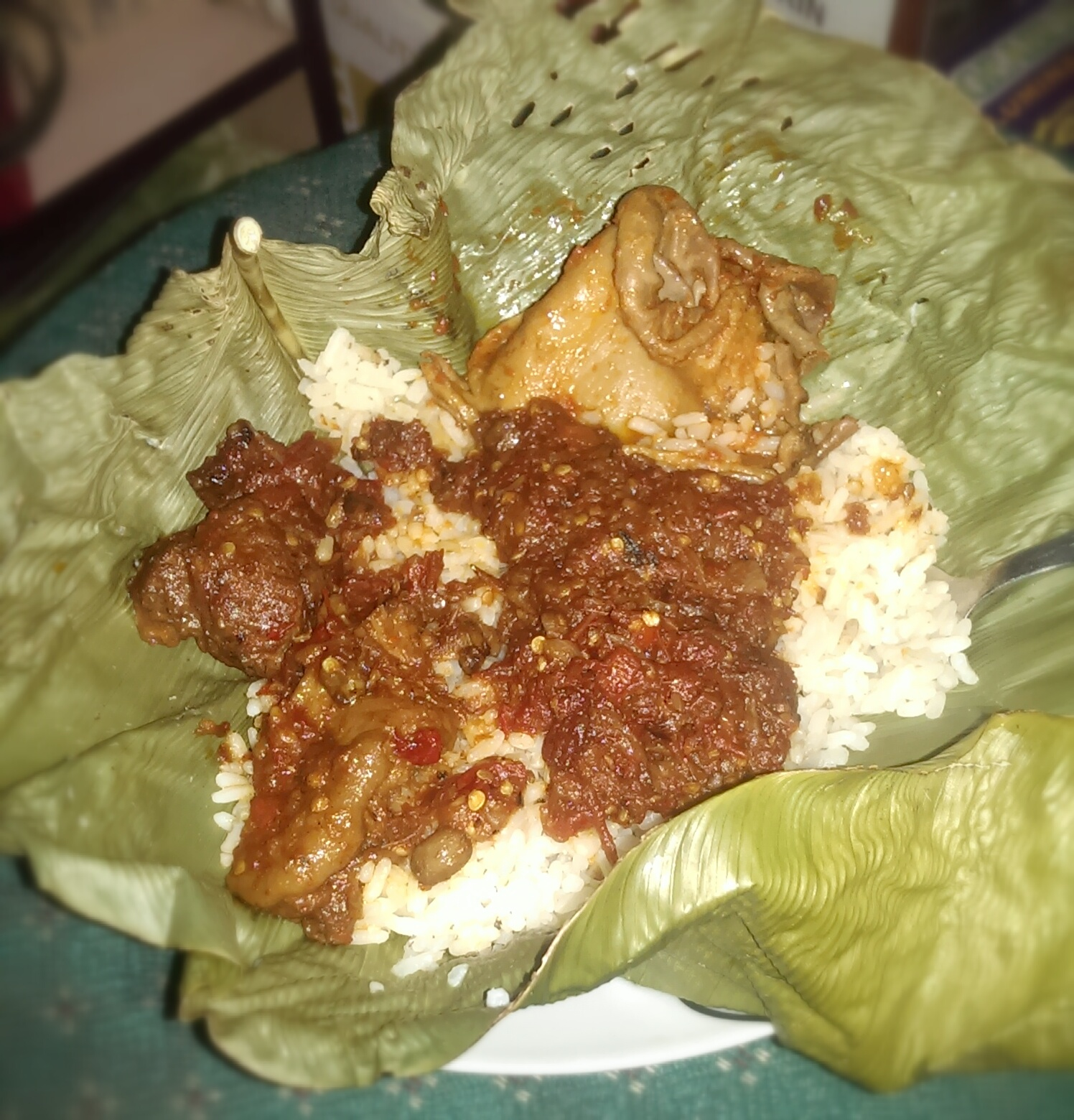 Local Ofada rice and Ofada sauce with Iru and assorted meat. The rice is wrapped in fresh plantain leaves to impart a characteristic aroma and flavor. This is an image of food from Nigeria